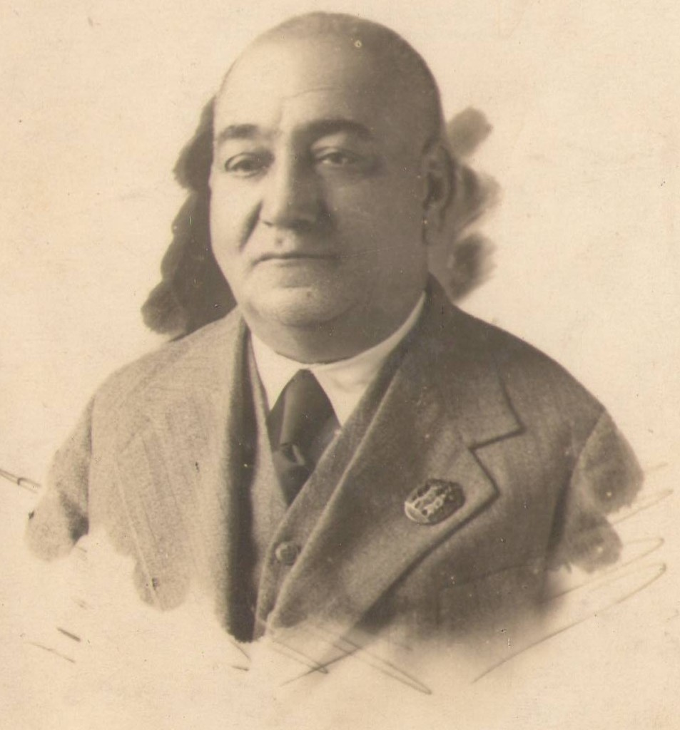 Photo of Azim Azimzade (1880 - 1943)